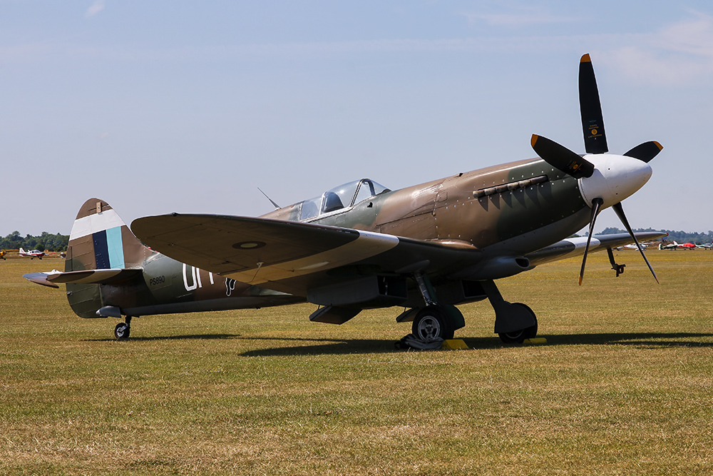 F-AZJS, PS890/UM-E, C/N 6S/585110, (1944) - Duxford Flying Legends, 11/07/2015